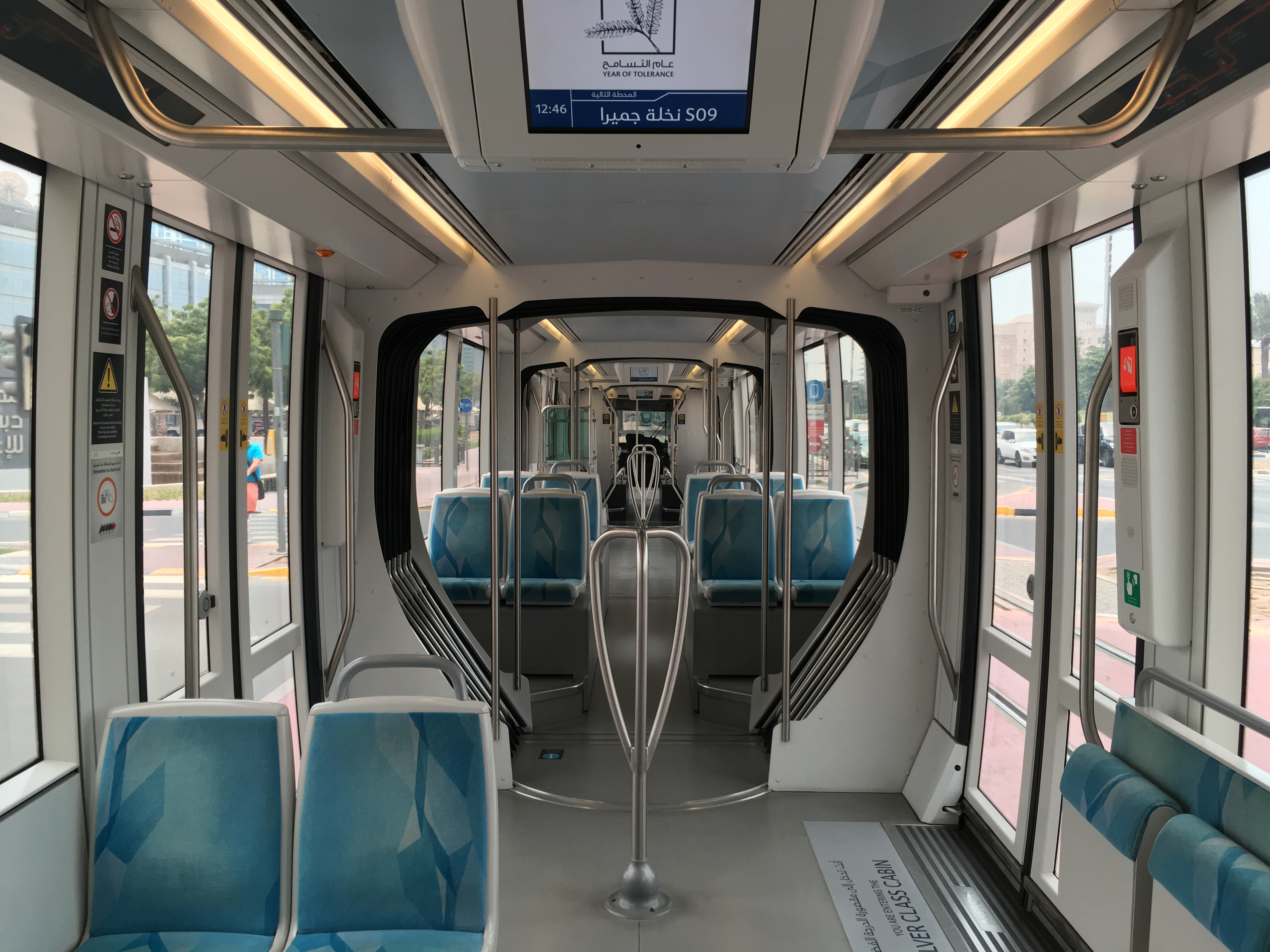 The interior of a Dubai Tram Alstom Citadis 402